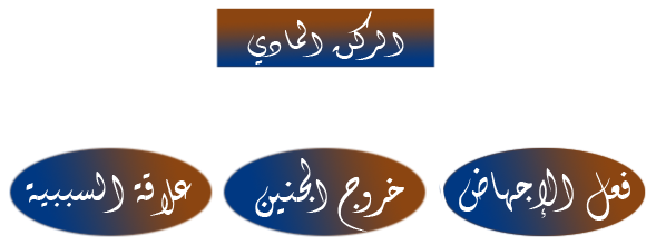 Elements of the material element of the abortion in the Egyptian law